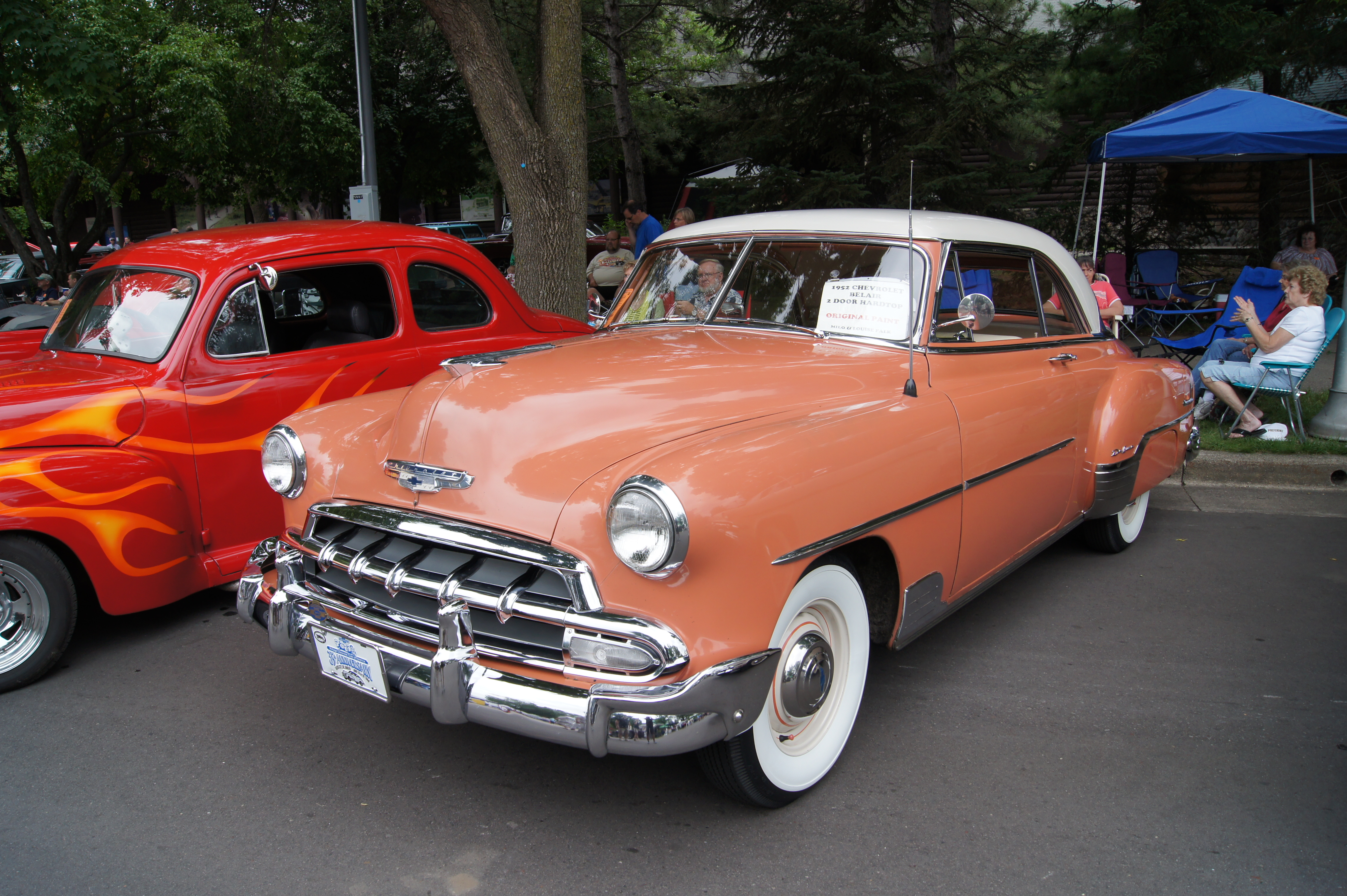 Minnesota Street Rod Association 39th Annual "Back to the Fifties" June 2012 Minnesota State Fairgrounds St. Paul MN